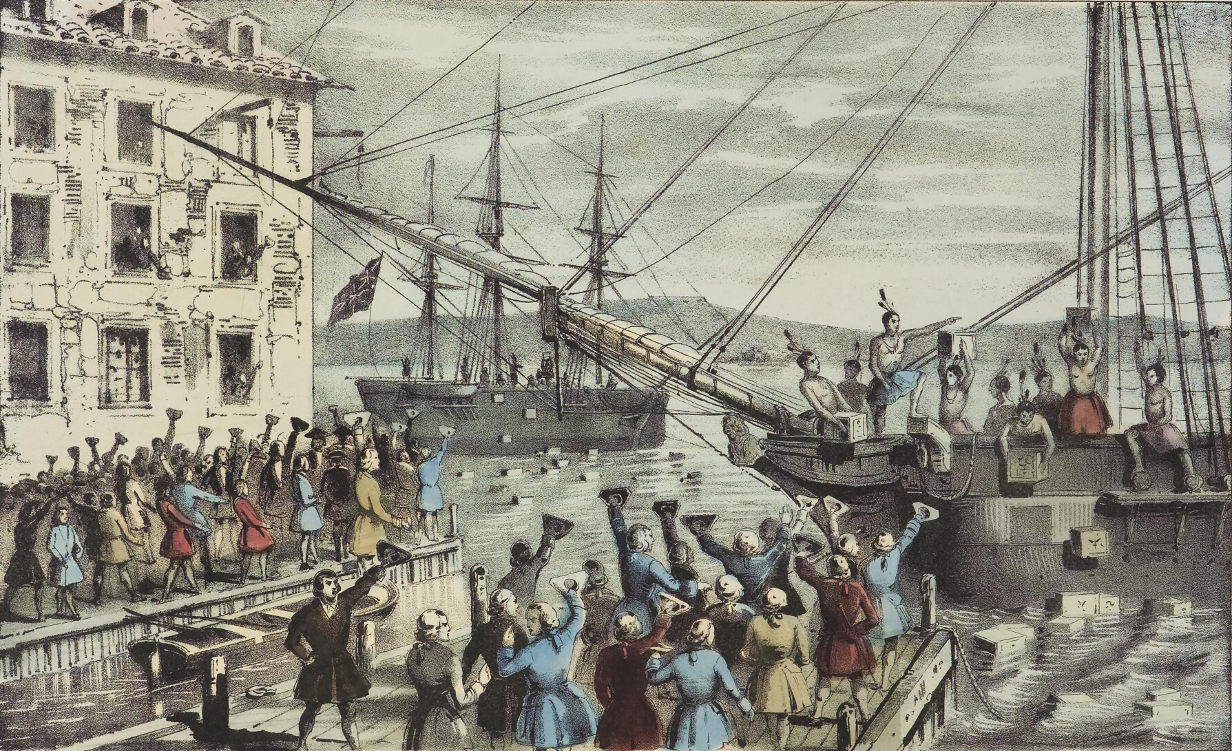 "The Destruction of Tea at Boston Harbor", lithograph depicting the 1773 Boston Tea Party